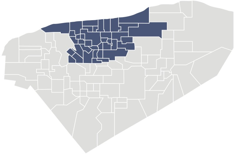 Map of the Second Federal Electoral District of the State of Yucatan, México.